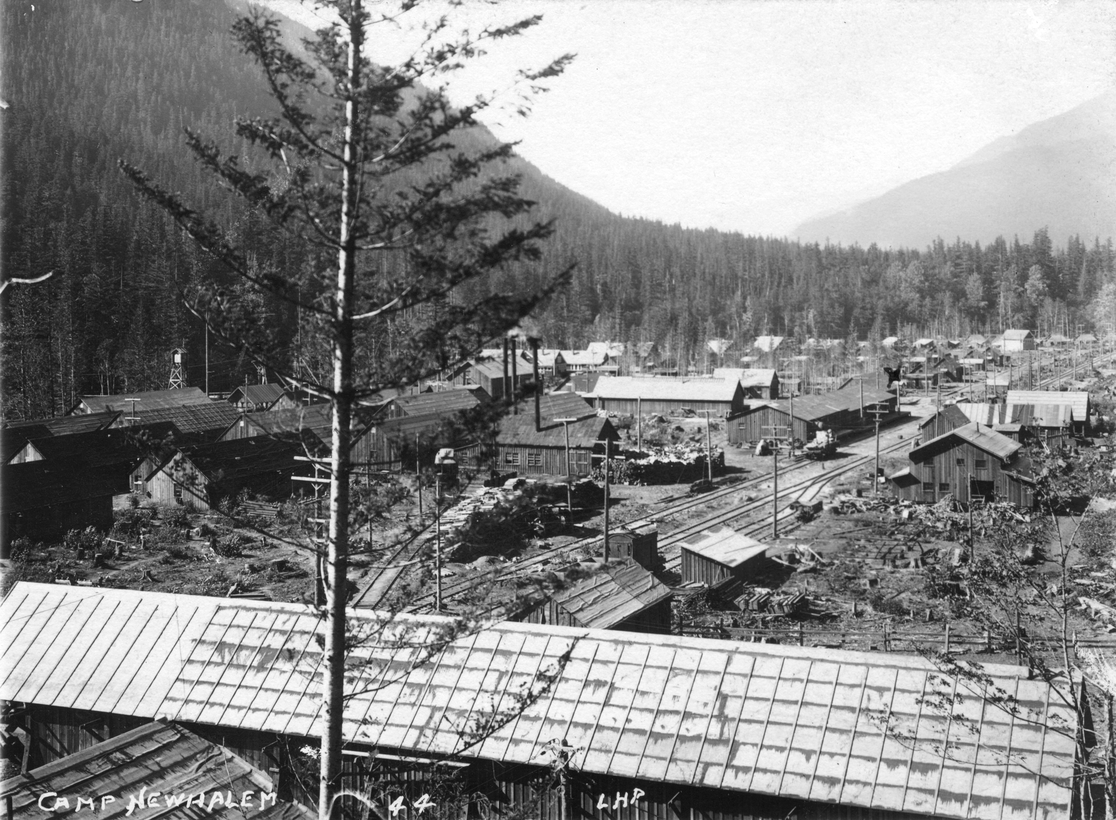 Original Collection: Gerald W. Williams Collection You can find this image by searching for the item number by clicking here. Want more? You can find more digital resources online. We're happy for you to share this digital image within the spirit of The Commons; however, certain restrictions on high quality reproductions of the original physical version may apply. To read more about what “no known restrictions” means, please visit the Special Collections & Archives website, or contact staff at the OSU Special Collections & Archives Research Center for details.